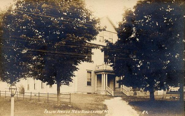 Town House, New Gloucester, Maine